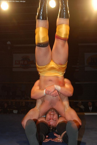 24 January 2009 - NWA Charlotte Inaugural Show -Adam Pearce piledrives Brent Albright.